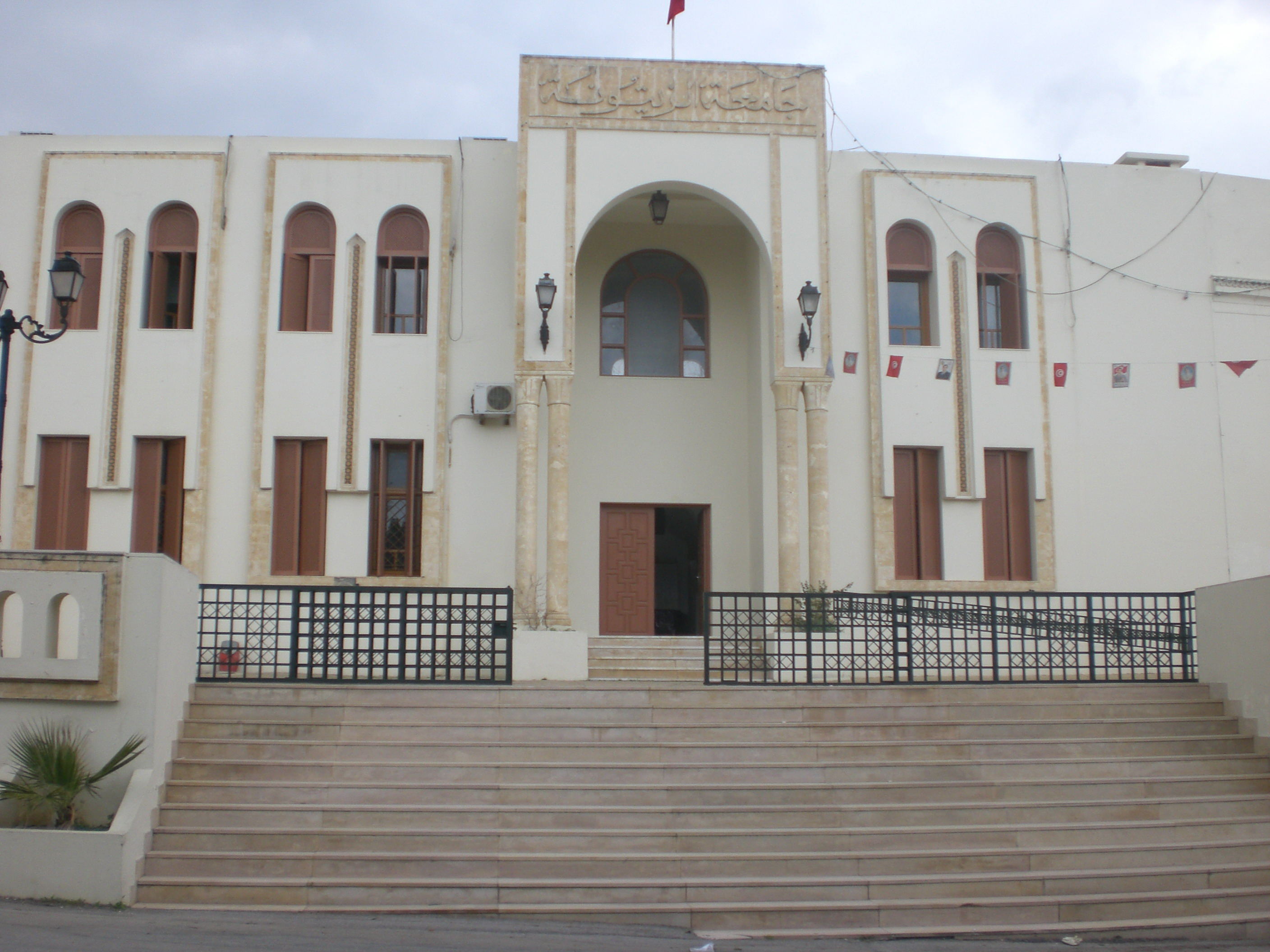 The Zitouna University in Tunis